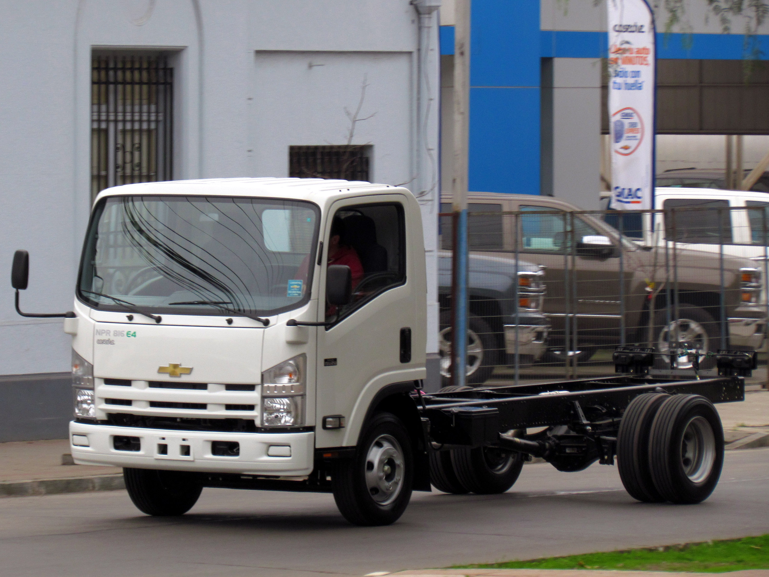 Chevrolet NPR 816 E4 2014, (Another name Isuzu NPR)